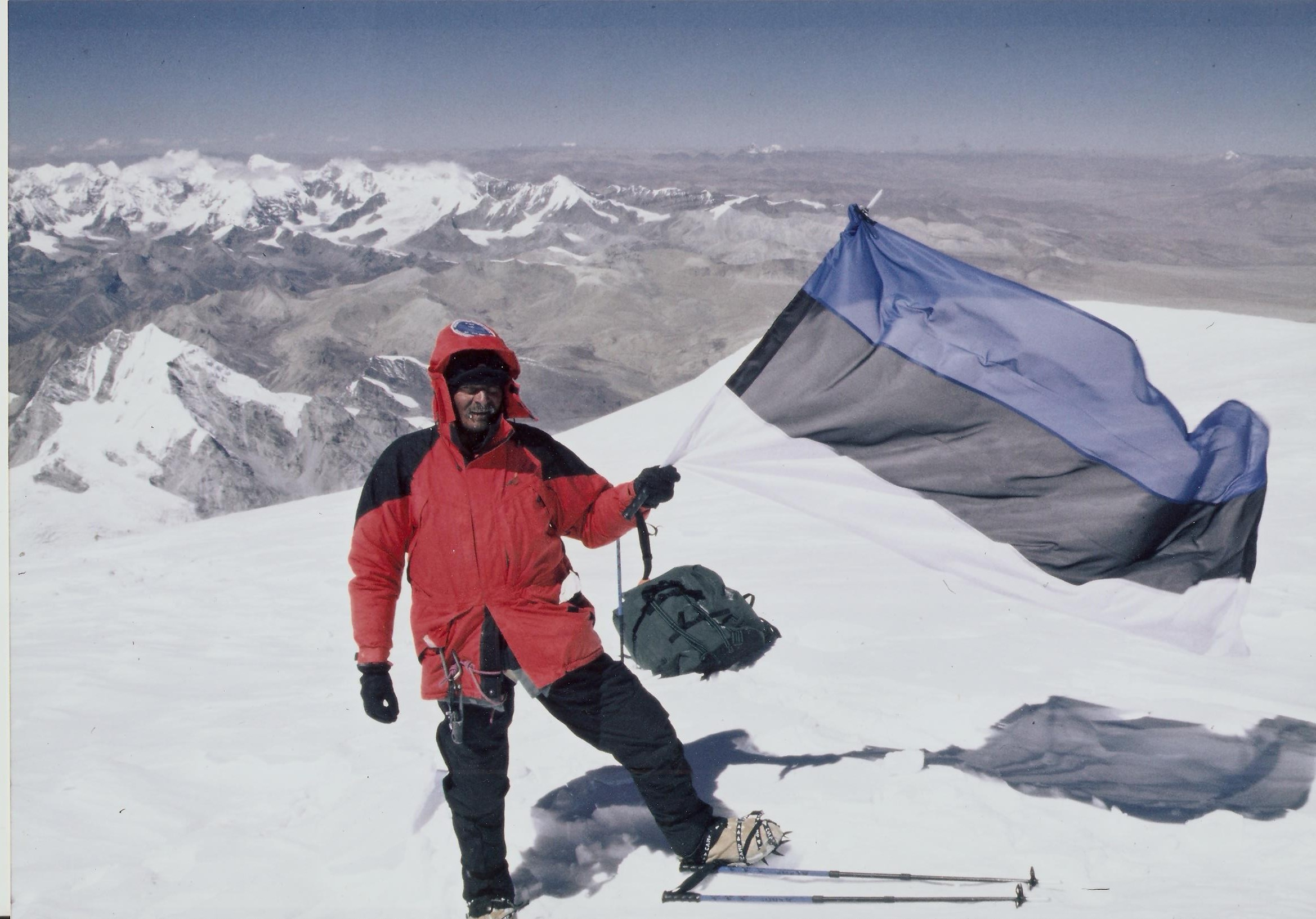 Tõivo Sarmet, Peak Cho Oyu, 8201 m, 11. oct 1998